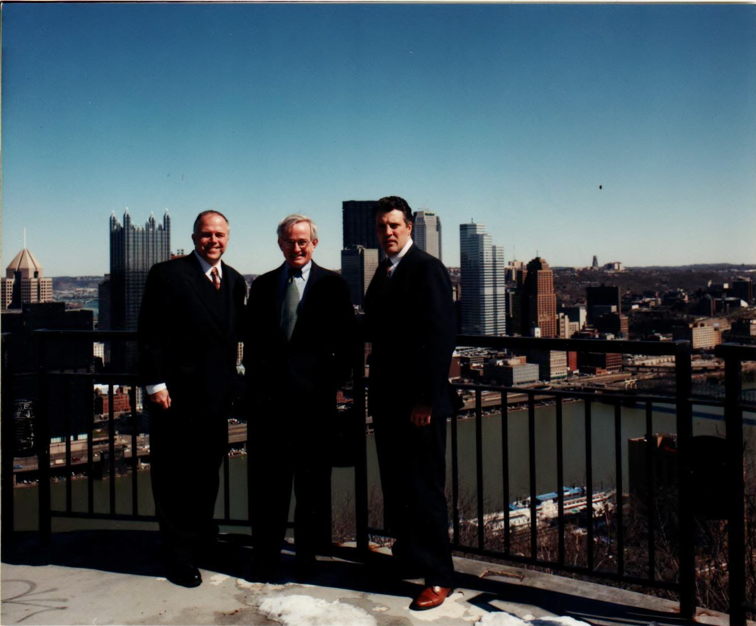 Allegheny County Commissioners Bob Cranmer and Mike Dawida with Pittsburgh Mayor Tom Murphy - 1999.